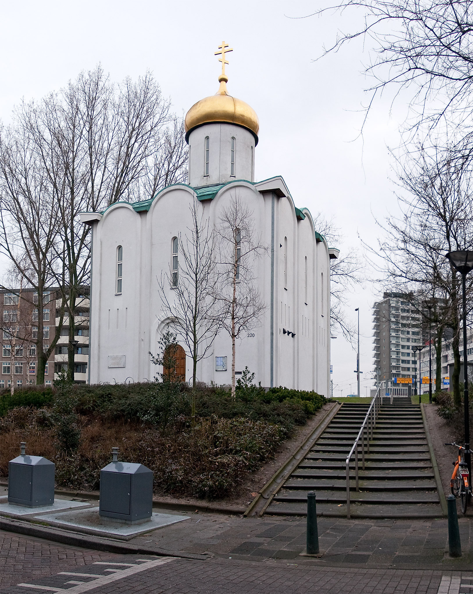 Russian Orthodox Church of Alexander Nevsky / Rotterdam, Holland